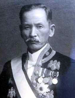 Ryōhei Okada is a politician in Japan.(This image is available from the website of the Dai Nippon Hotokusha. This website says "Creative Commonsの表示（CC BY）として公開します".)